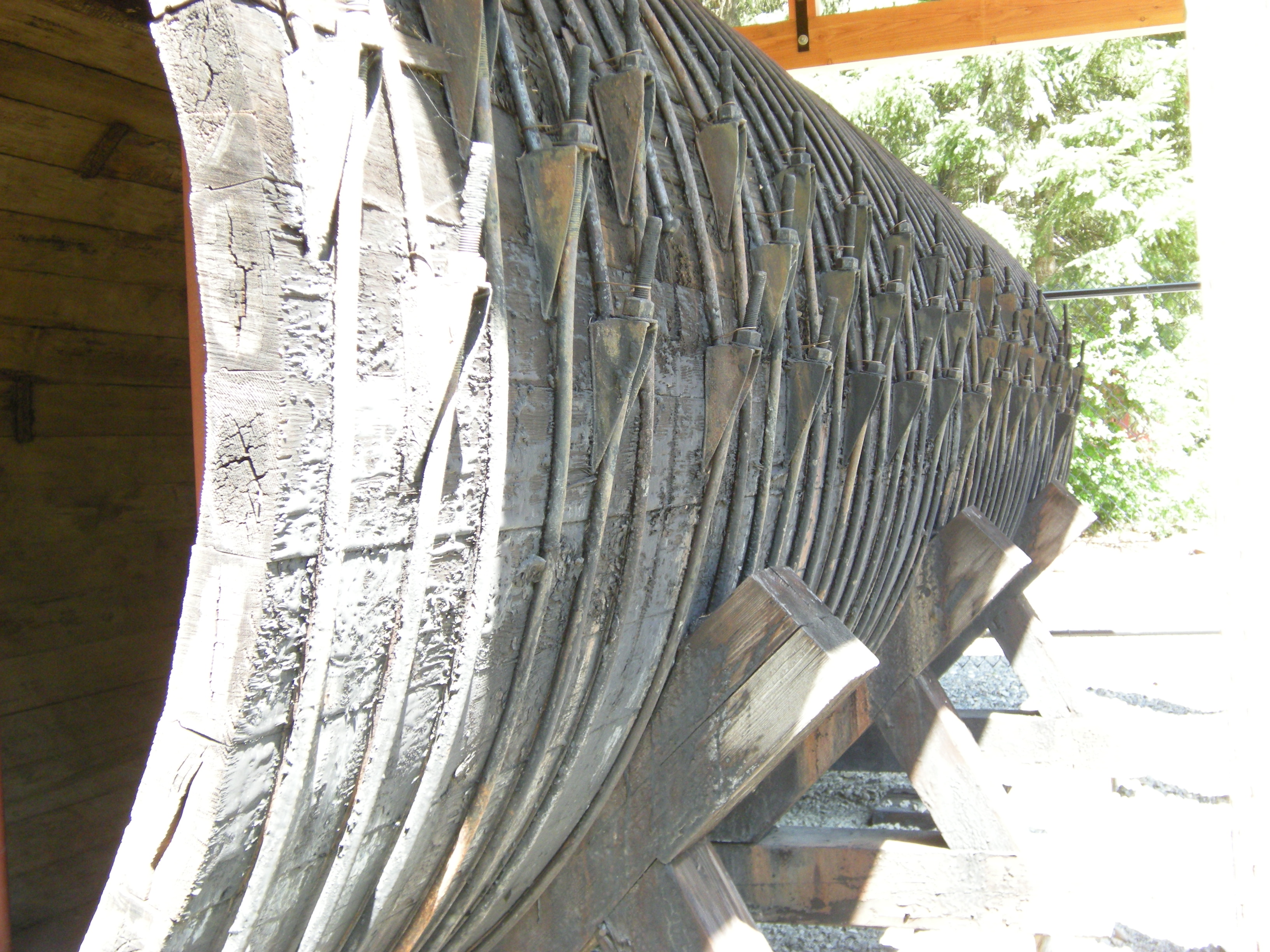 This wooden pipe was used from 1930 to 1991 to carry Cedar River water to Seattle, Washington, USA. It is now on display near the Maple Valley Community center as part of a small museum complex operated by the Maple Valley Historical Society.